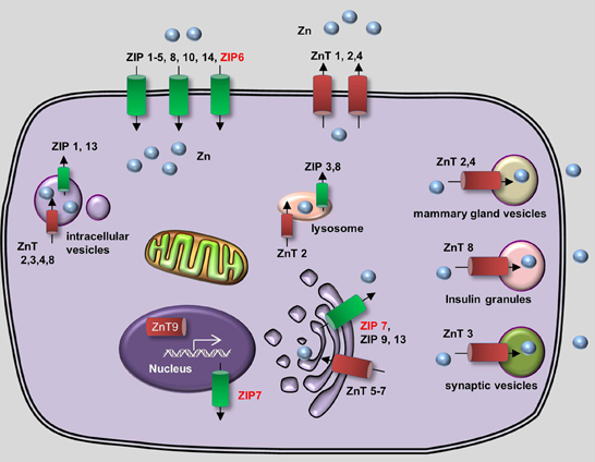 The figure shows the location of different zinc transporter proteins in a cell, including ZIP9 which is located at Golgi here.